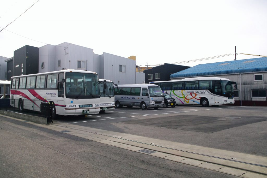 Hoei Kotsu Owariasahi Depot